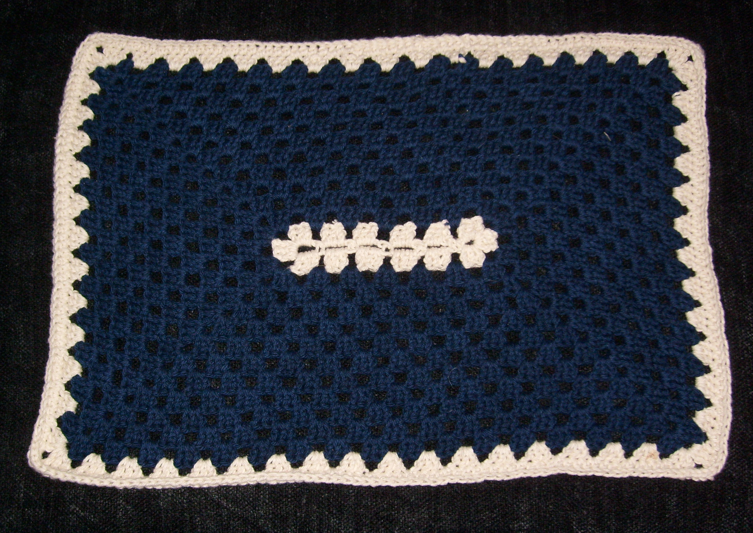 Placemat. Crochet: granny square rectangular variation, cotton. Original design